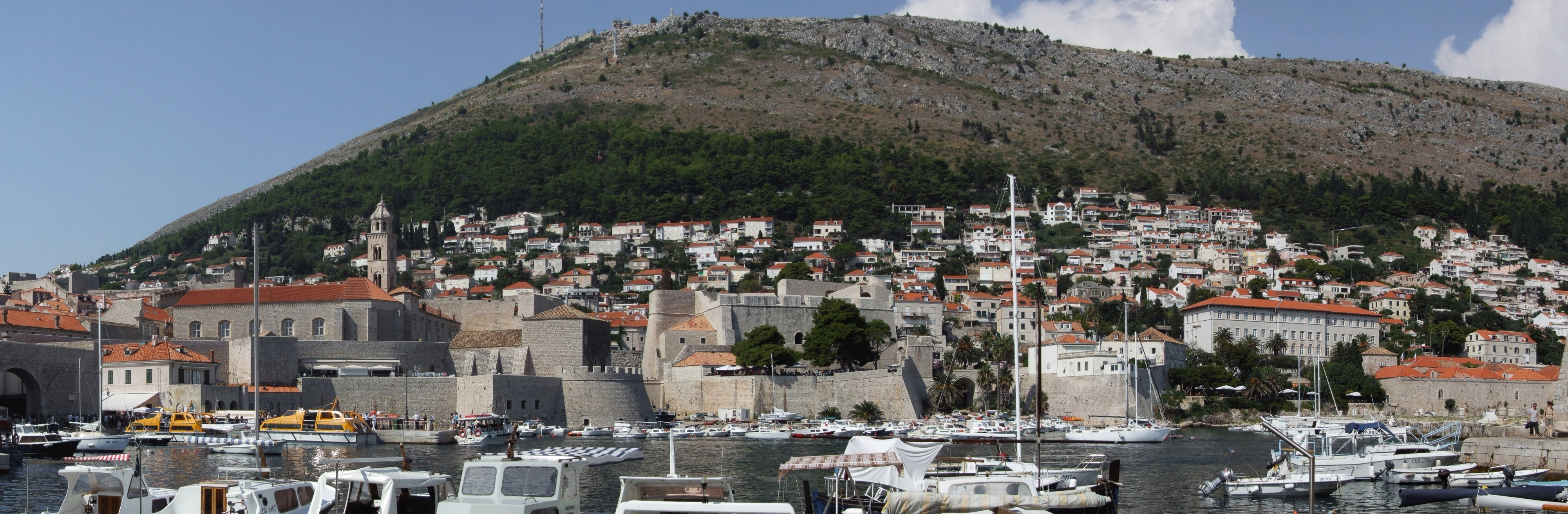 Dubrovnik - panorama of old harbour